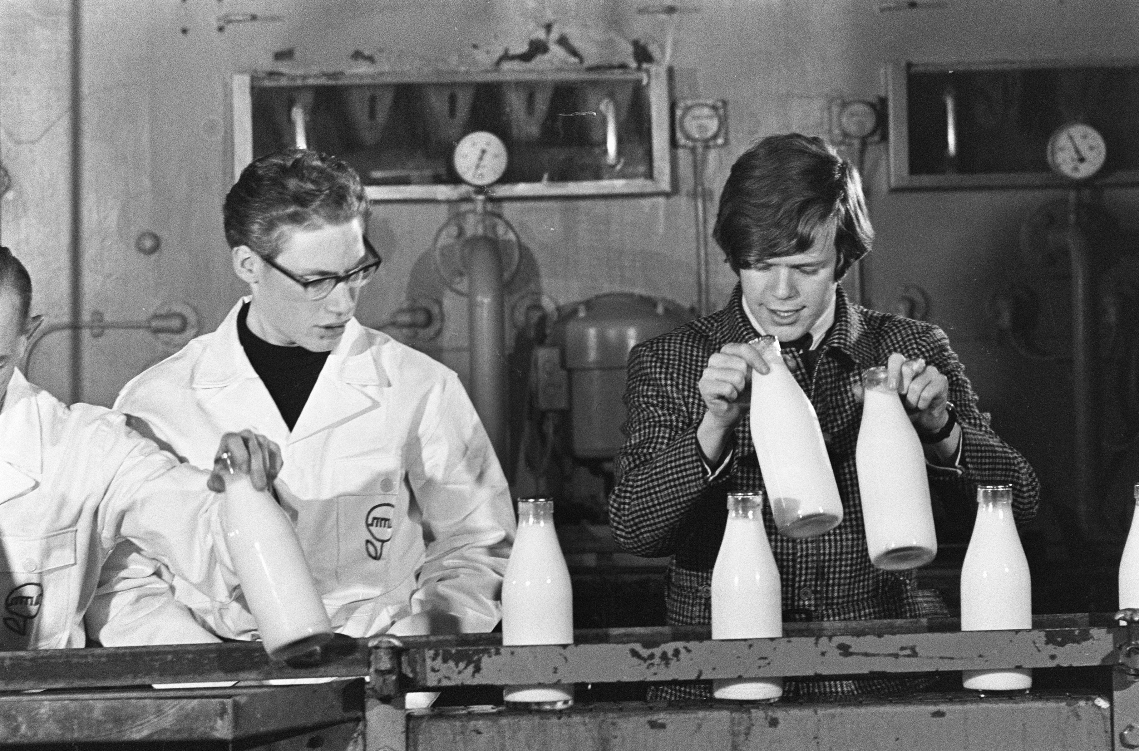 Peter Noone (Herman's Hermits) in a dairy company at the Larenseweg in Hilversum (the Netherlands), after the handing over of a gold record because of record sales of the single No milk today (Dec. 1966)